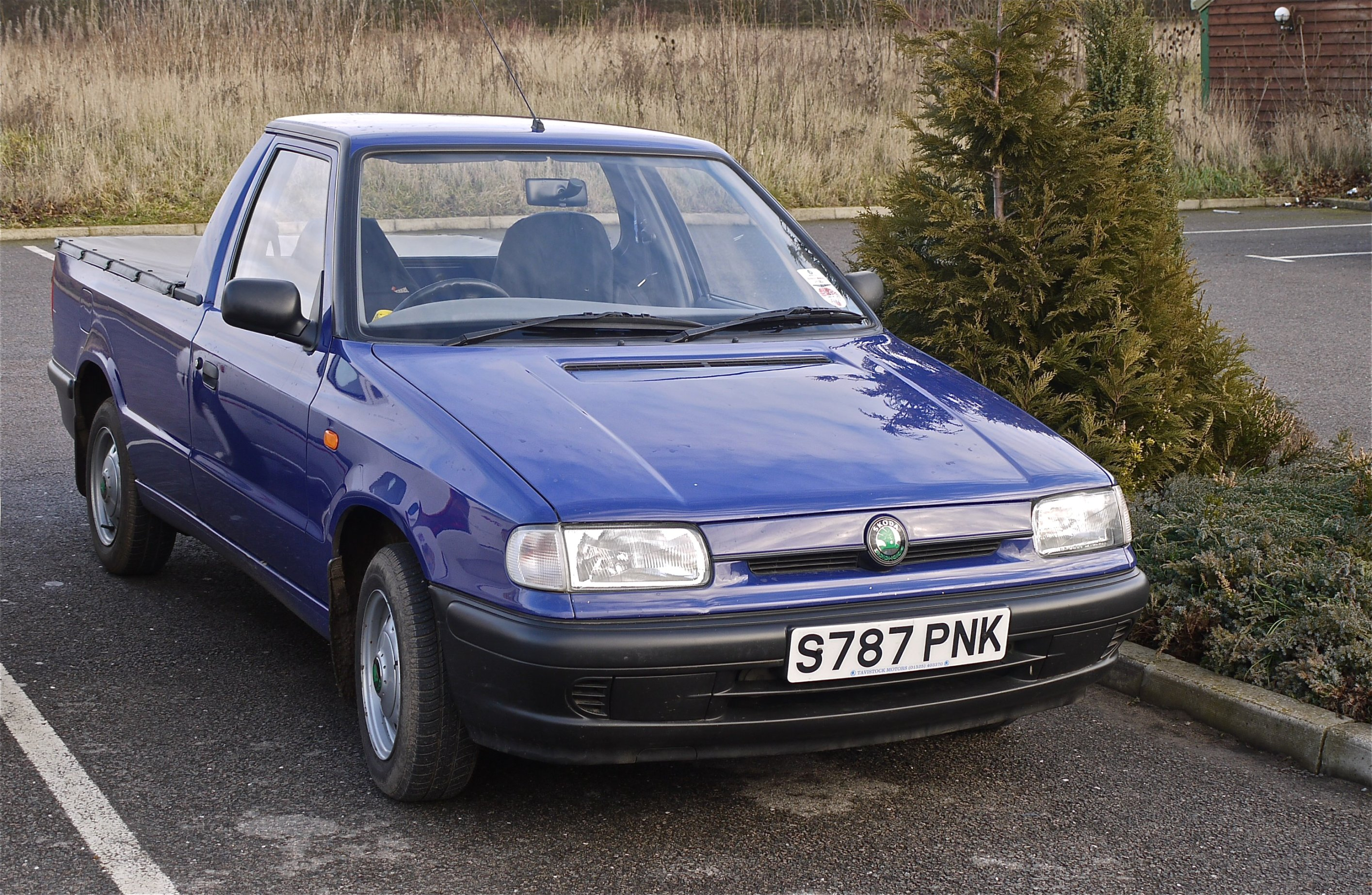 The rare pick up version. Panasonic G1 14-45 Lens